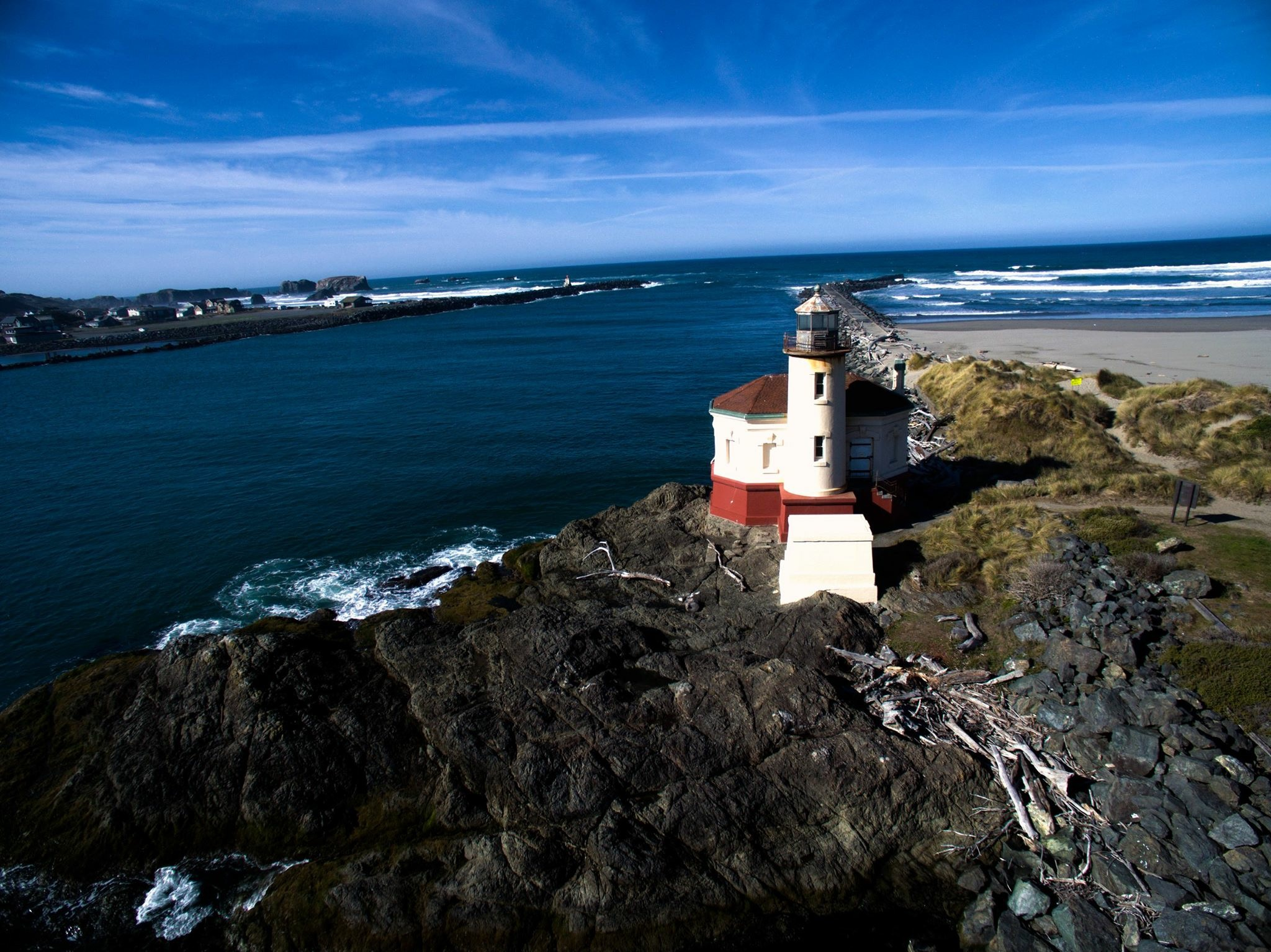 The Coquille River Lighthouse in Bandon, OR.